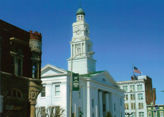 Image of the Clark County Kentucky Courthouse